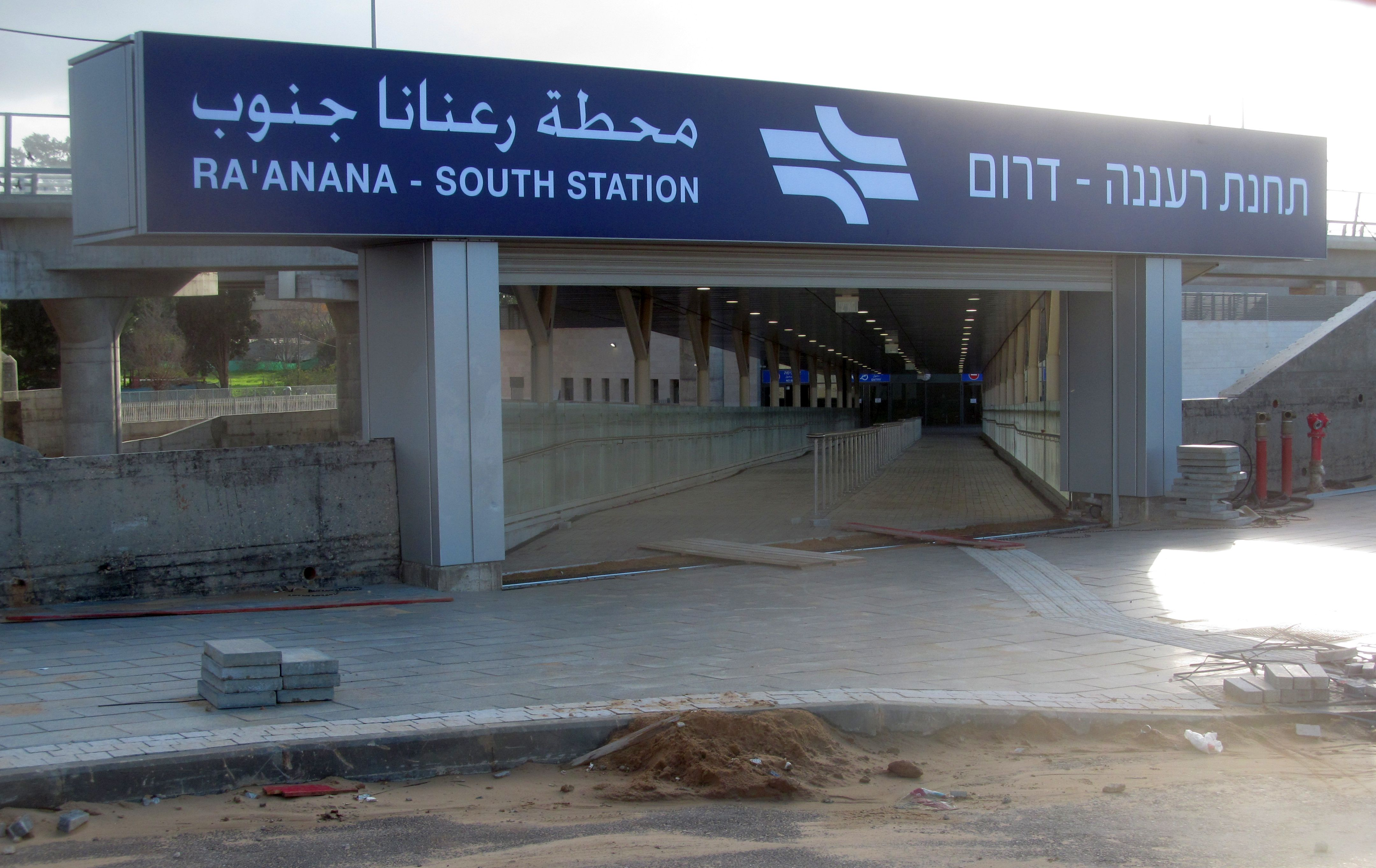 Ra'anana South railway station entrance under construction as of January 2018.